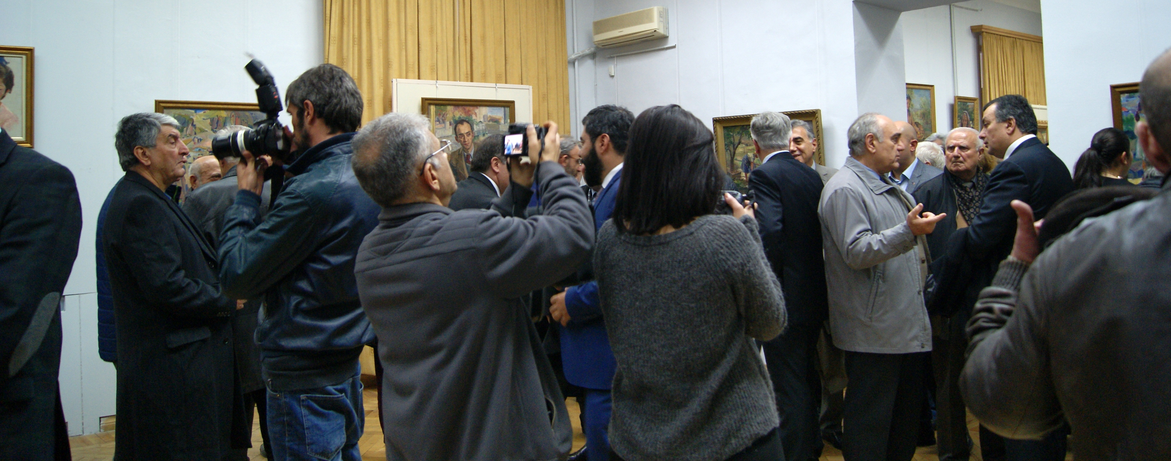 Արփենիկ Նալբանդյան. 100-ամյակին նվիրված հոբելյանական ցուցահանդես Հայաստանի ազգային պատկերասրահում Arpenik Nalbandyan. The 100th Birth Anniversary Exhibition at National Gallery of Armenia